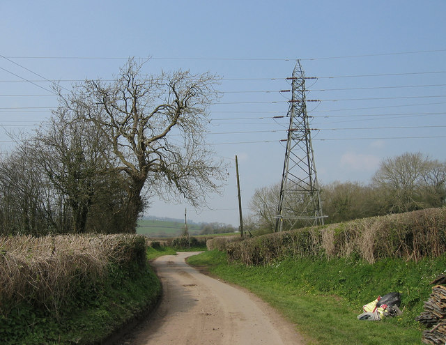 Countryside at Wenvoe Looking north west on the minor road from Wenvoe to Wrinstone Farm.